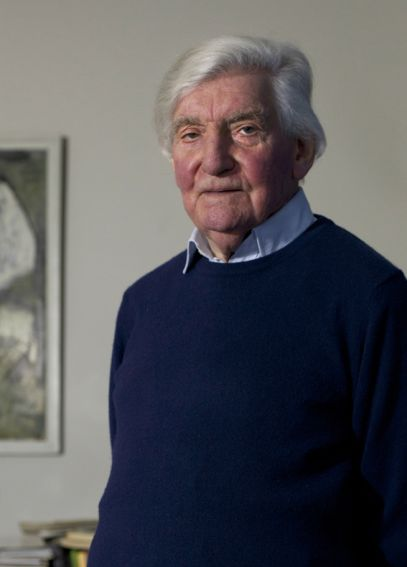 Sir Alan Bowness, 2016. Photo: Gautier Deblonde.